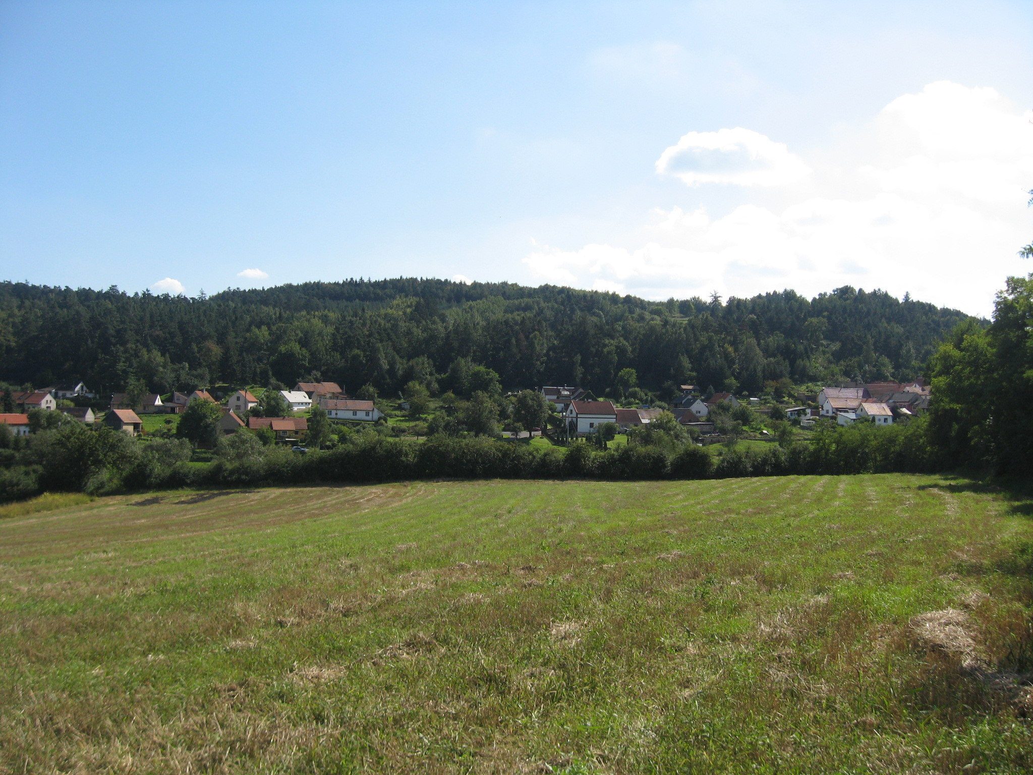 Brodec - Czech Republic Česky: Brodec (okres Louny)